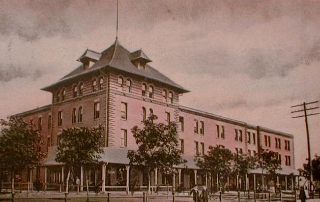 Hand colored photo postcard of Katy Hotel and Depot, in Muskogee, Oklahoma.